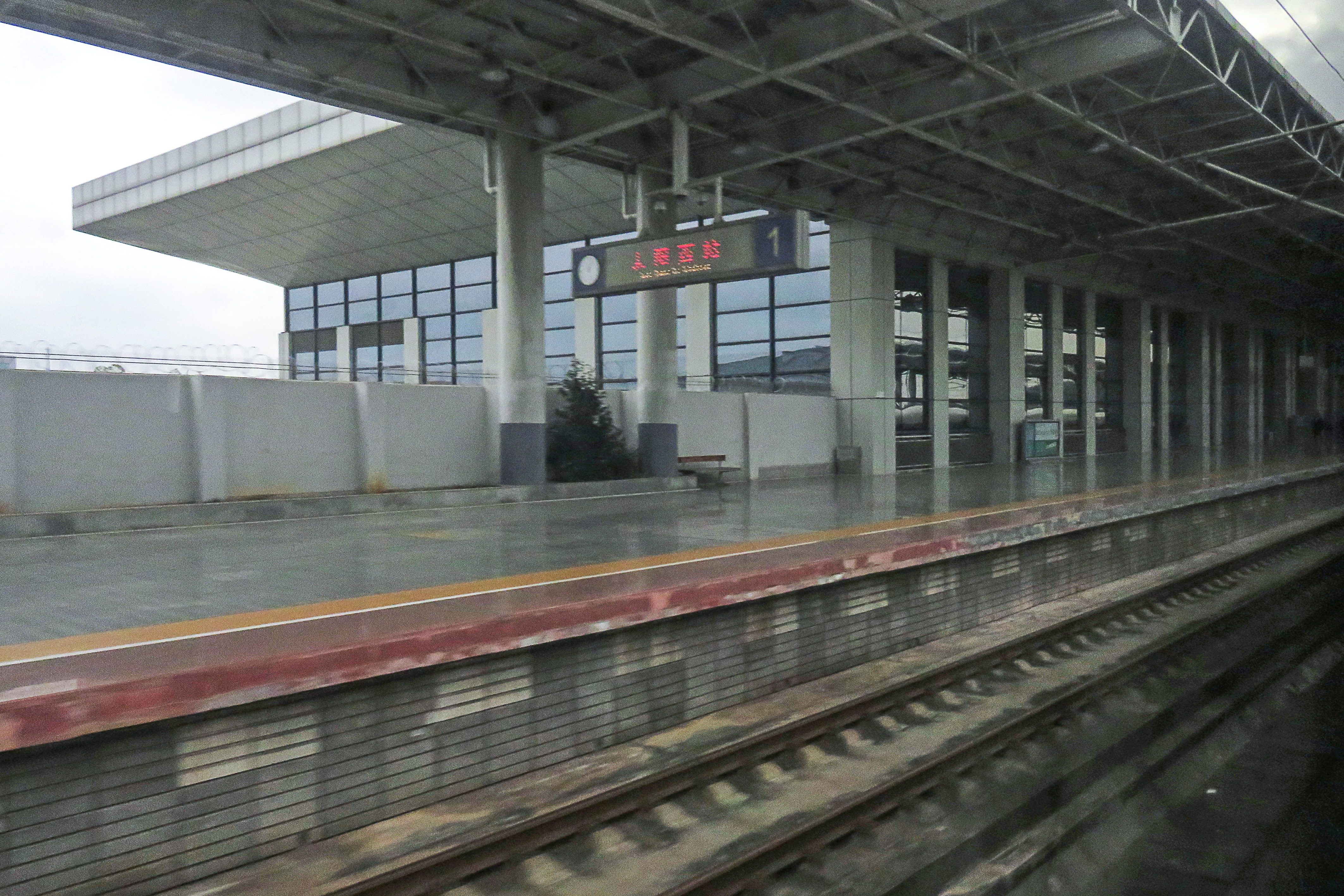 It has been 9 years since this station opened...